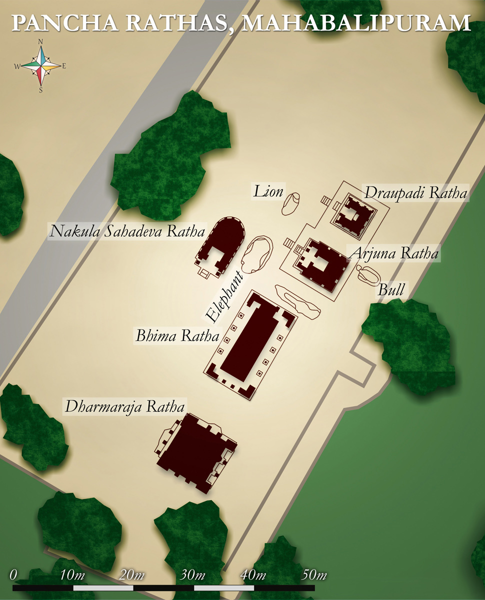 Scheme, Pancha Rathas in Mahabalipuram.